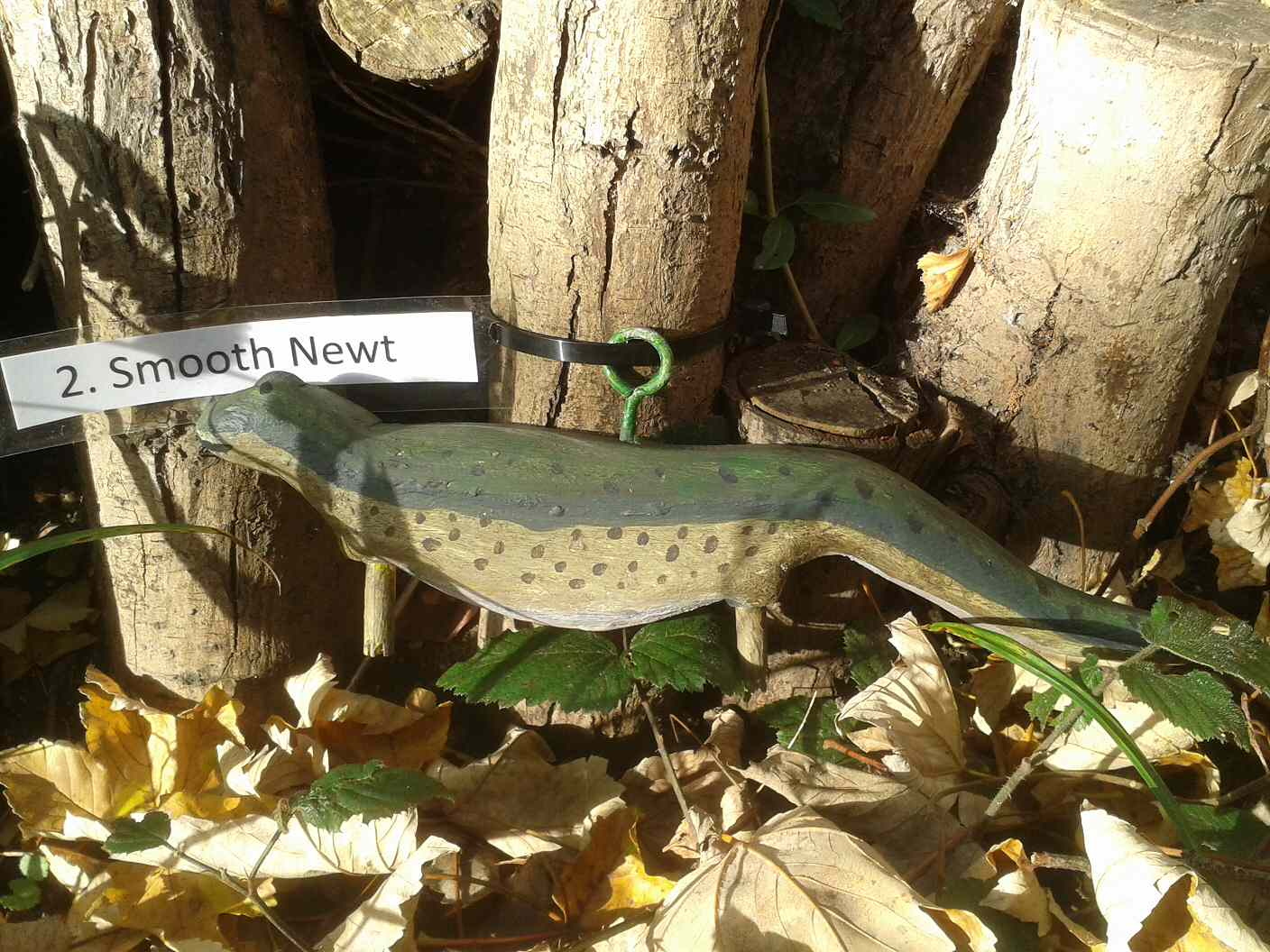 Smooth newt, one of a series of painted wooden animals on a children's nature trail in Gunnersbury Triangle local nature reserve